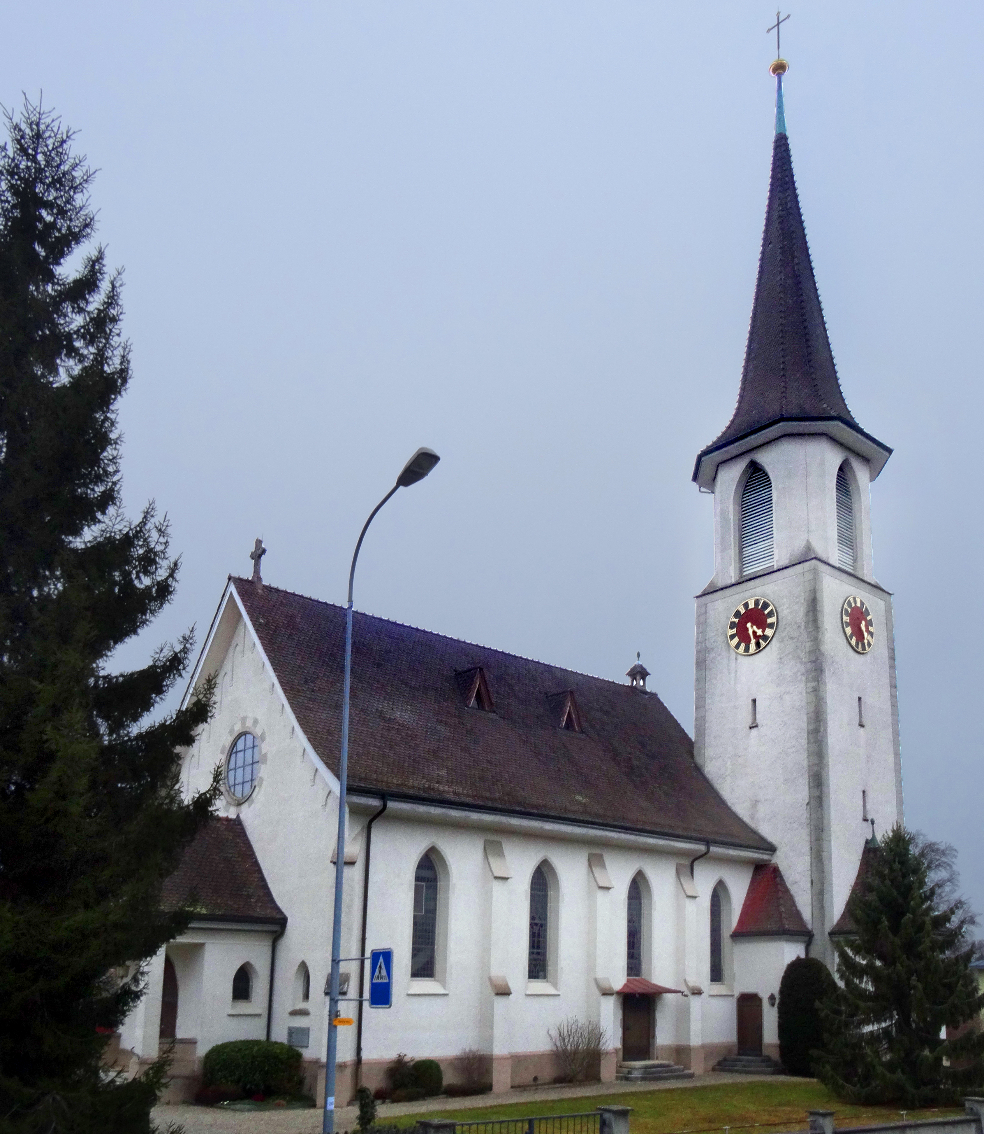 Catholic church of Mammern, Switzerland.